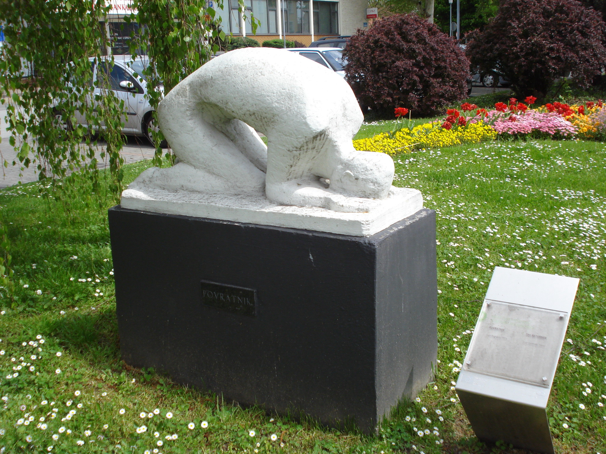 "The returner" (1973), sculpture of Lujo Bezeredy, Croatian sculptor and painter, in Čakovec, Croatia - southwest viewHrvatski: "Povratnik" (1973), skulptura Luje Bezeredyja, hrvatskog kipara i slikara, u Čakovcu, Hrvatska - jugozapadna strana